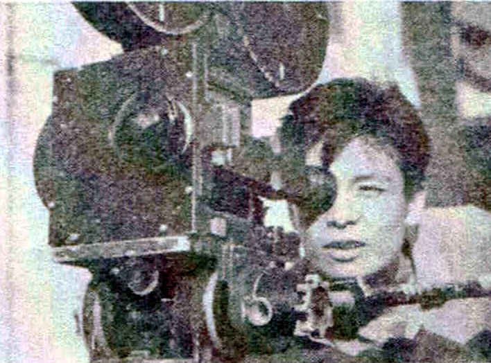 Kazue Nagatsuka